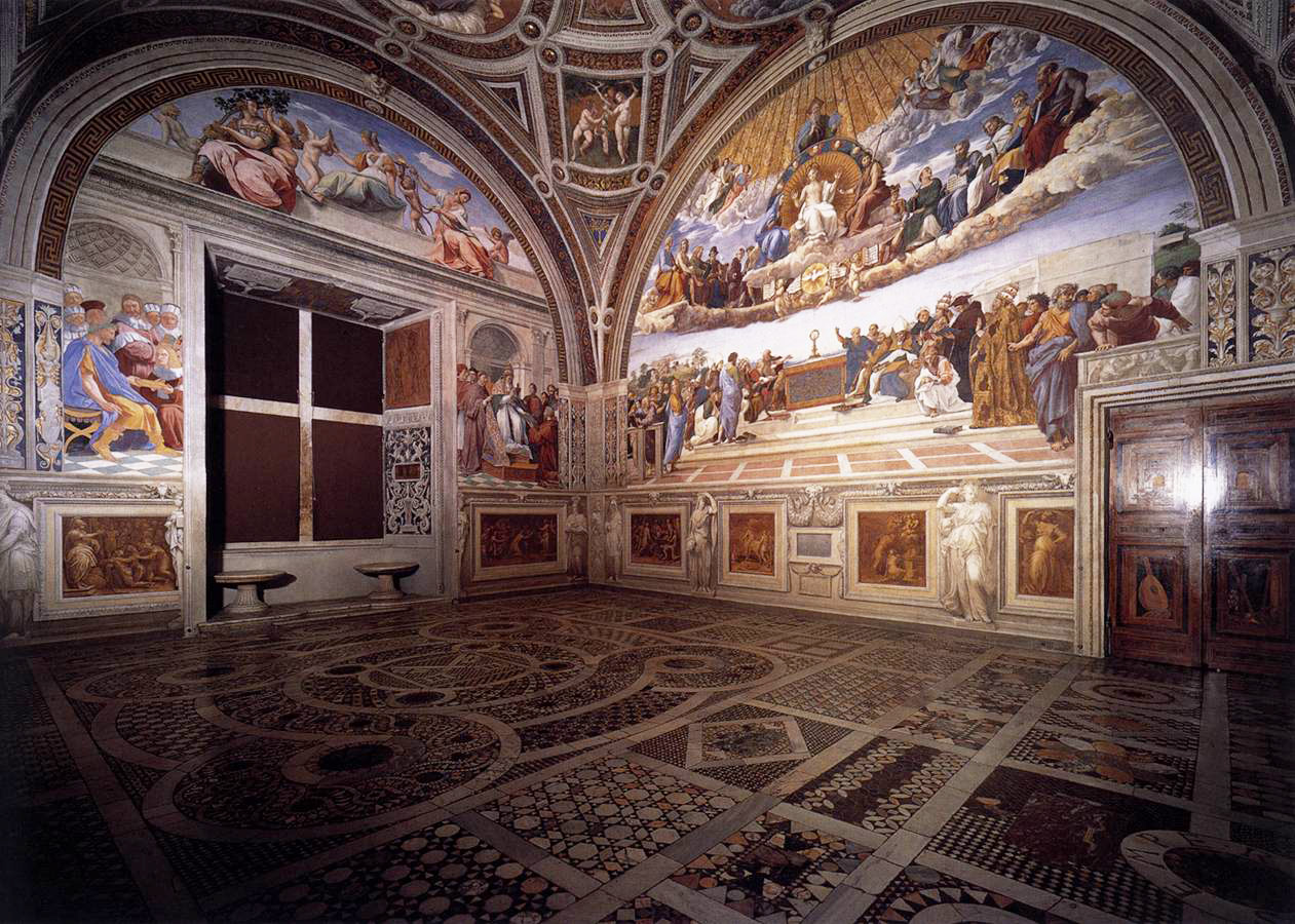 Fresco.